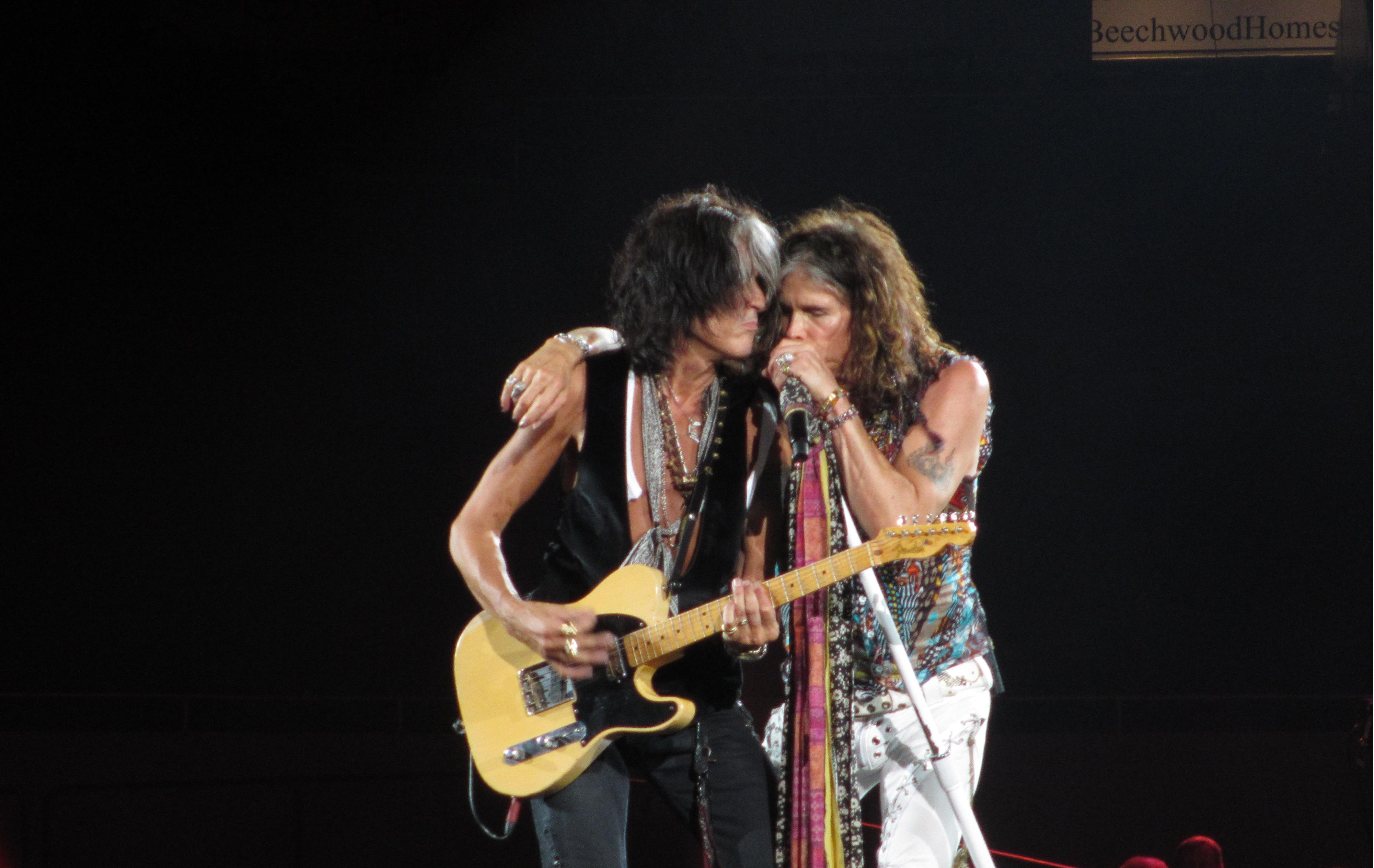 L-R: Joe Perry, Steven Tyler. At Nassau Colliseum, July 1, 2012.